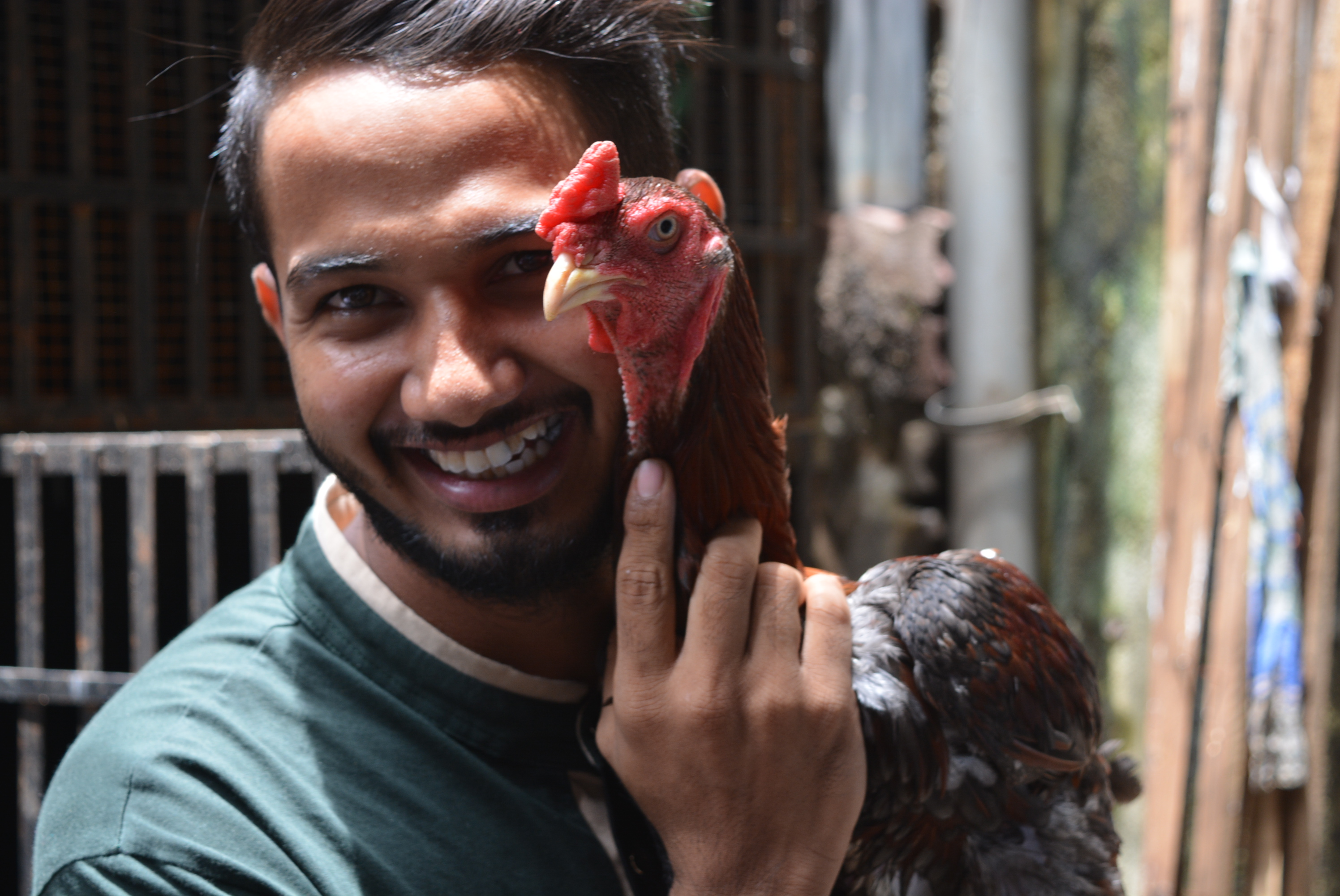 Bareilly Compound, Dharavi 2016